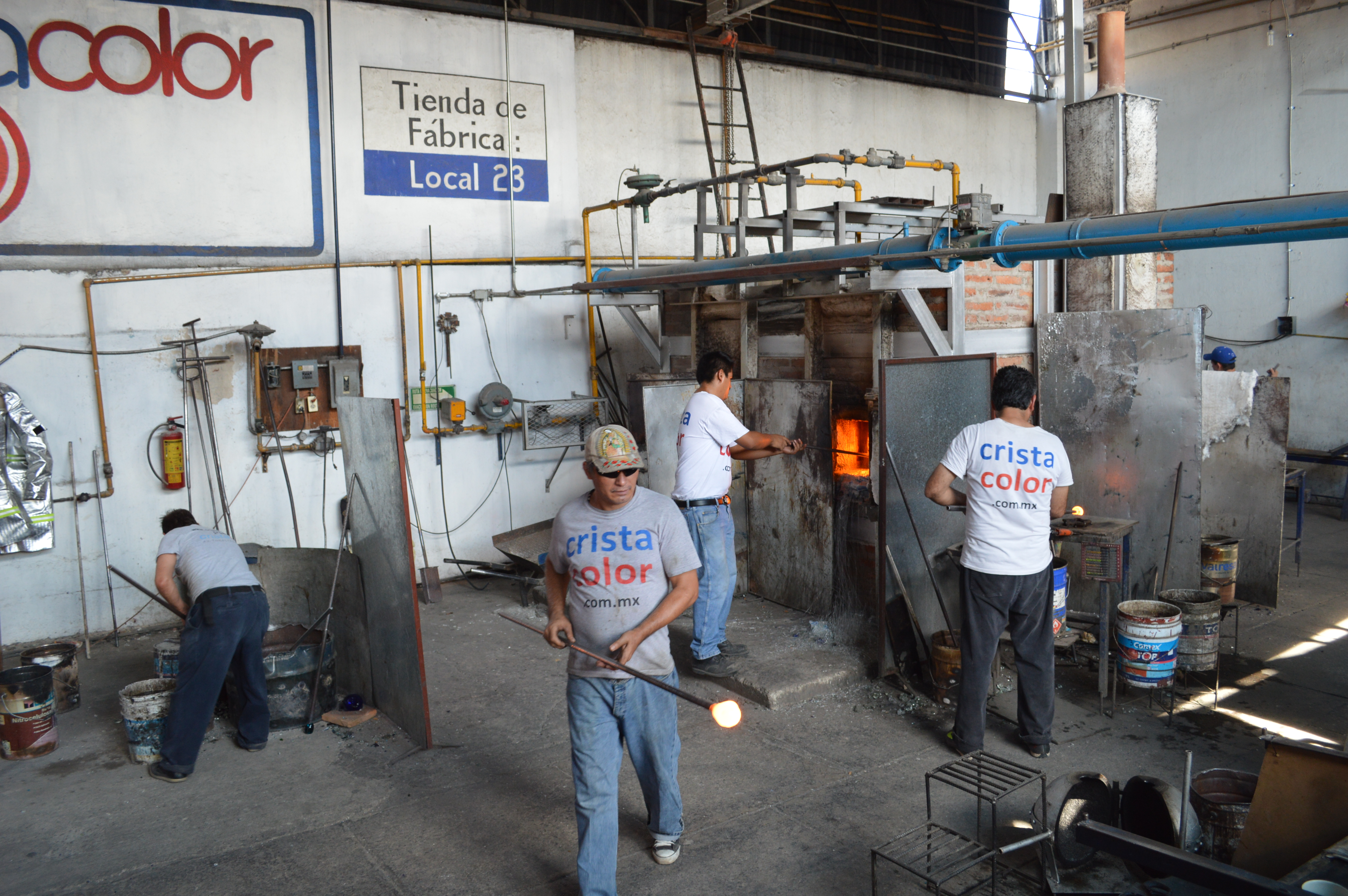 Workers take out molten glass from a furnace at the Cristacolor glass blowing workshop open to public viewing in Tonalá, Jalisco, Mexico